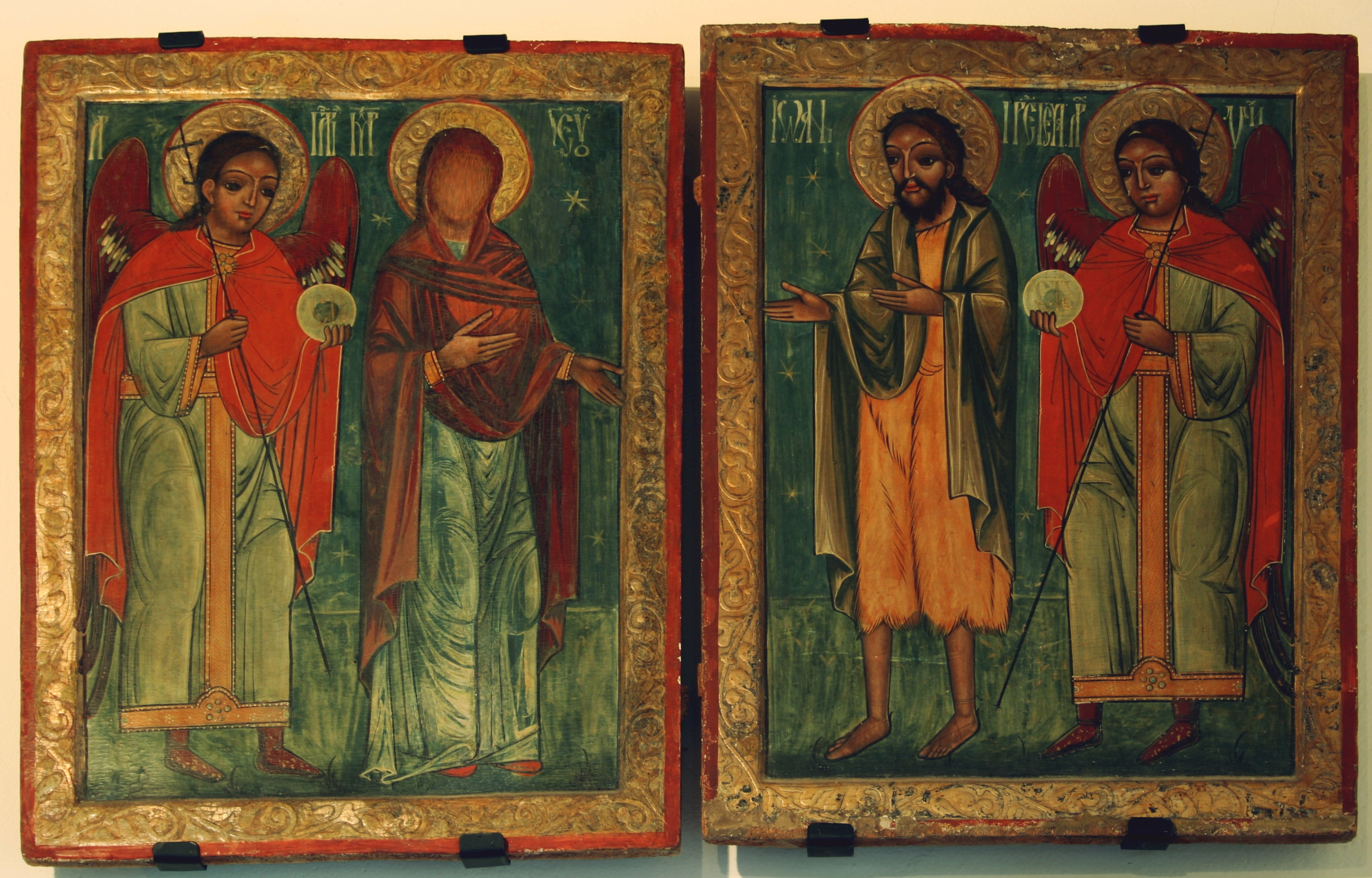 Deesis - an icon, Historic Museum in Sanok, Poland